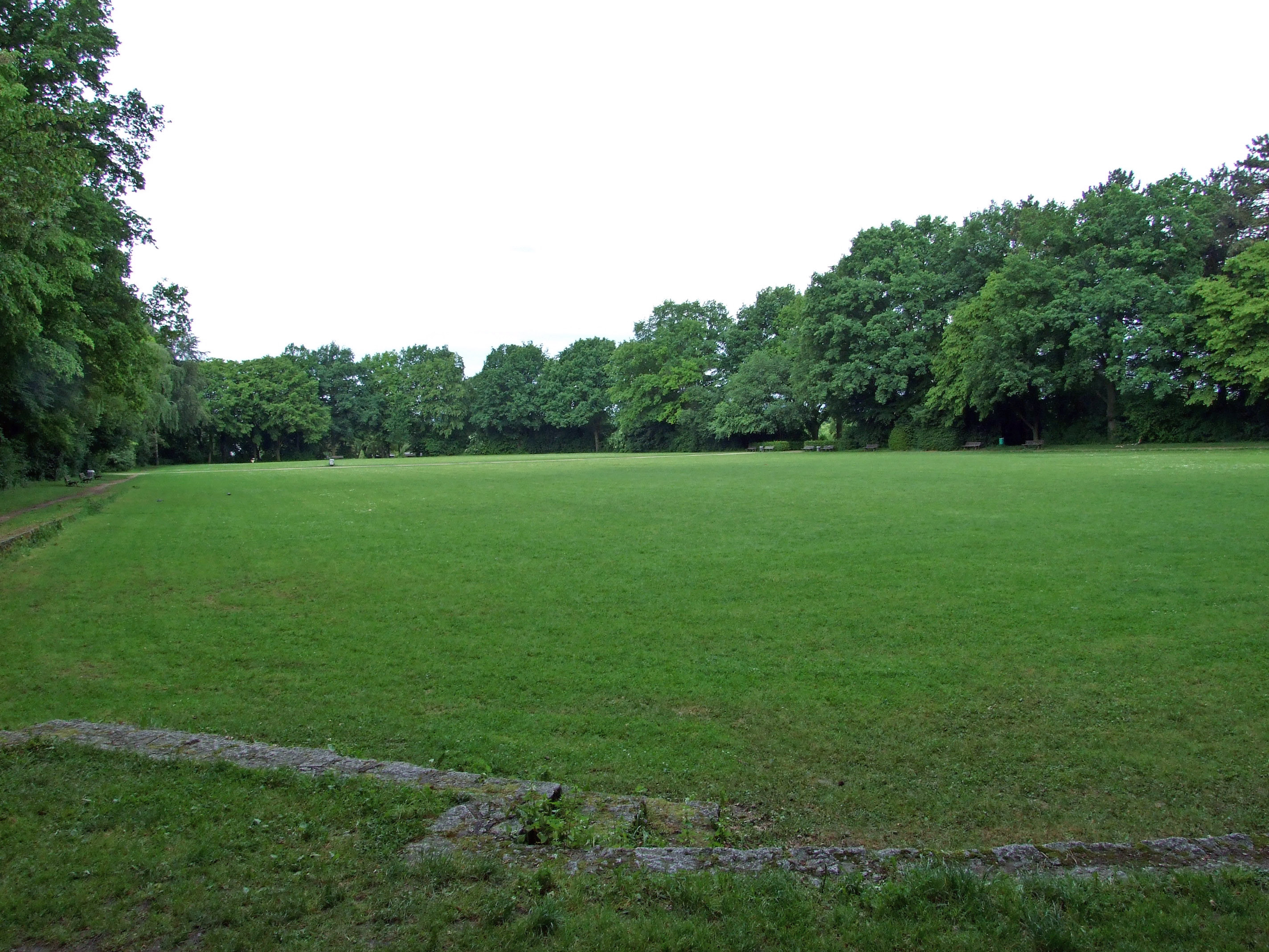 Competition area of Bergturnfest Lohrbergfest in the borrough Seckbach of Frankfurt, Hesse, Germany